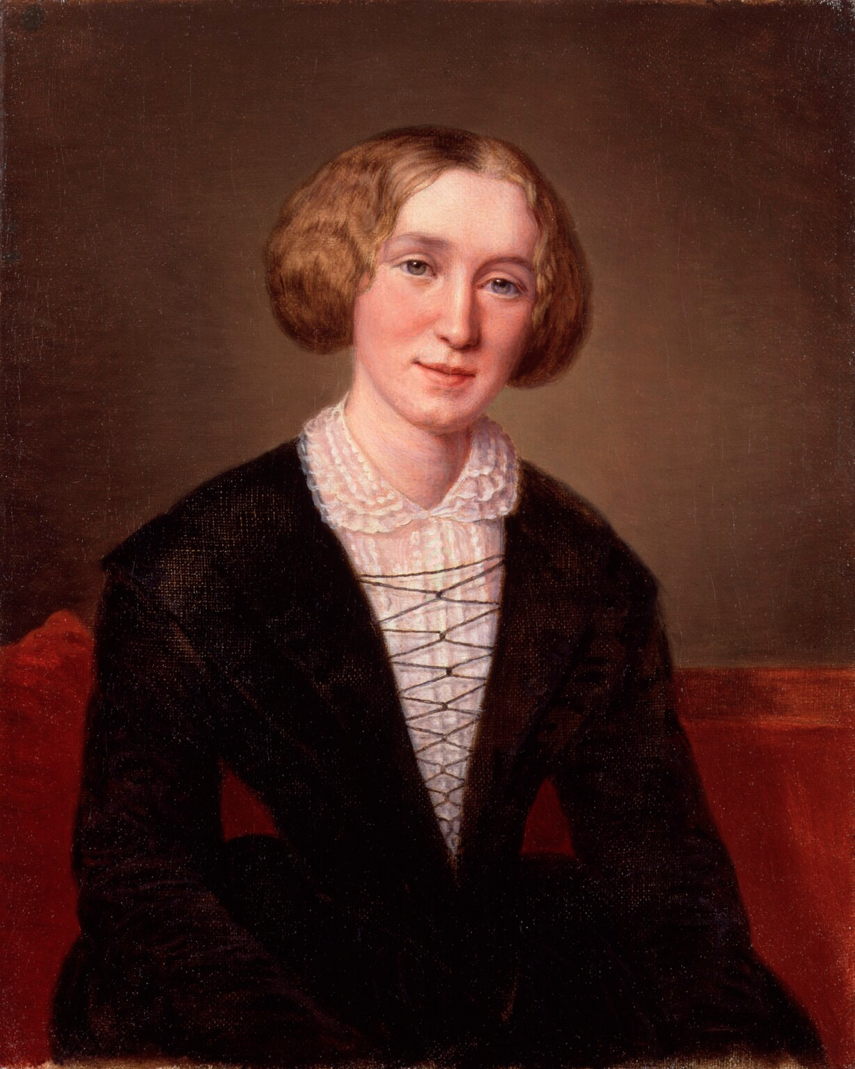 George Eliot (1819 – 22 December 1880), aged 30, by the Swiss artist Alexandre-Louis-François d'Albert-Durade (1804-86), whose family she lived with while in Switzerland. [1][2]